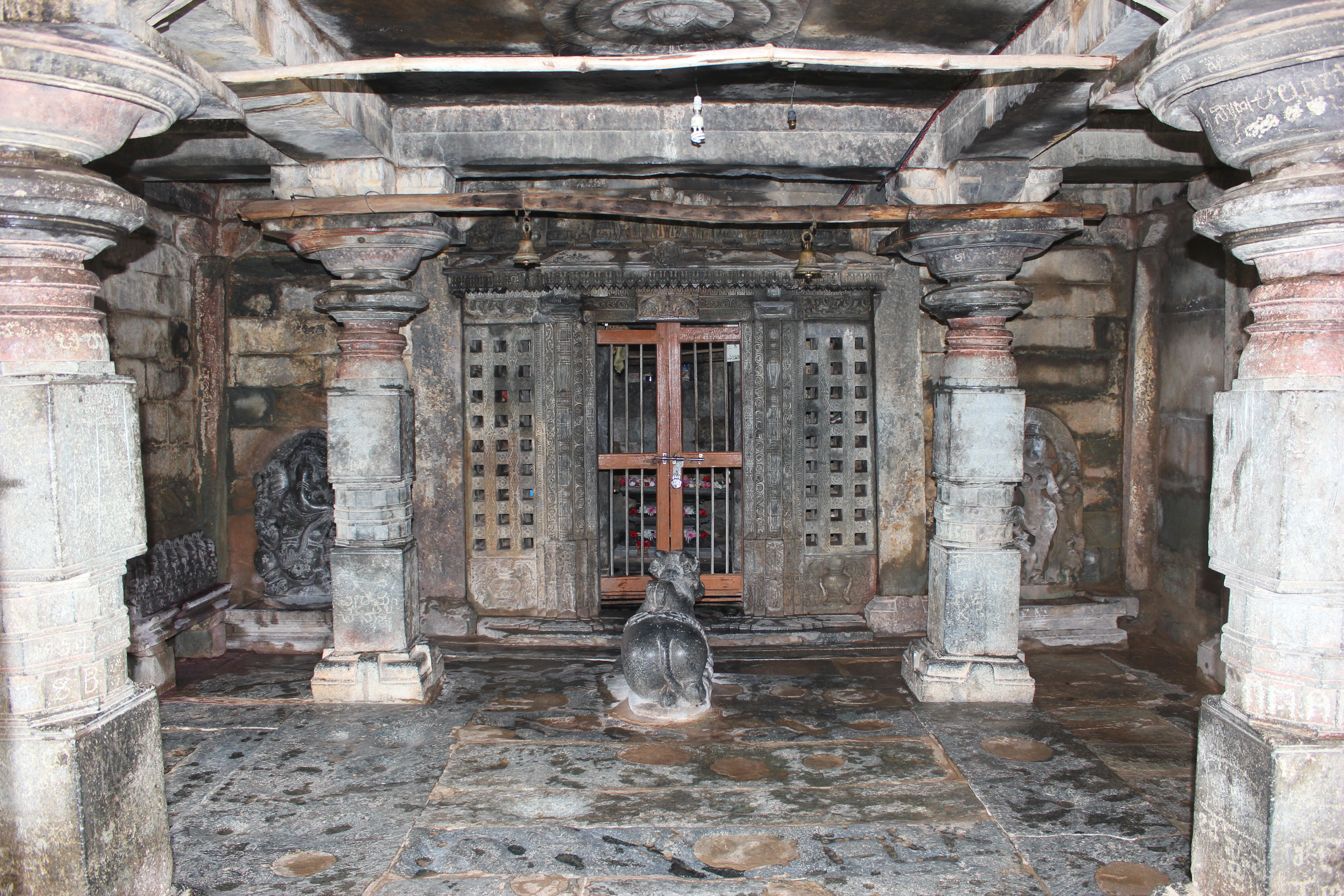 This photograph was taken by me at the Kalleshvara temple (also spelt Kalleshwara or Kallesvara) in Hire Hadagali, Bellary district, Karnataka state, India. The temple was built in 1057 A.D. by Western (Kalyani) Chalukya King Somesvara I.